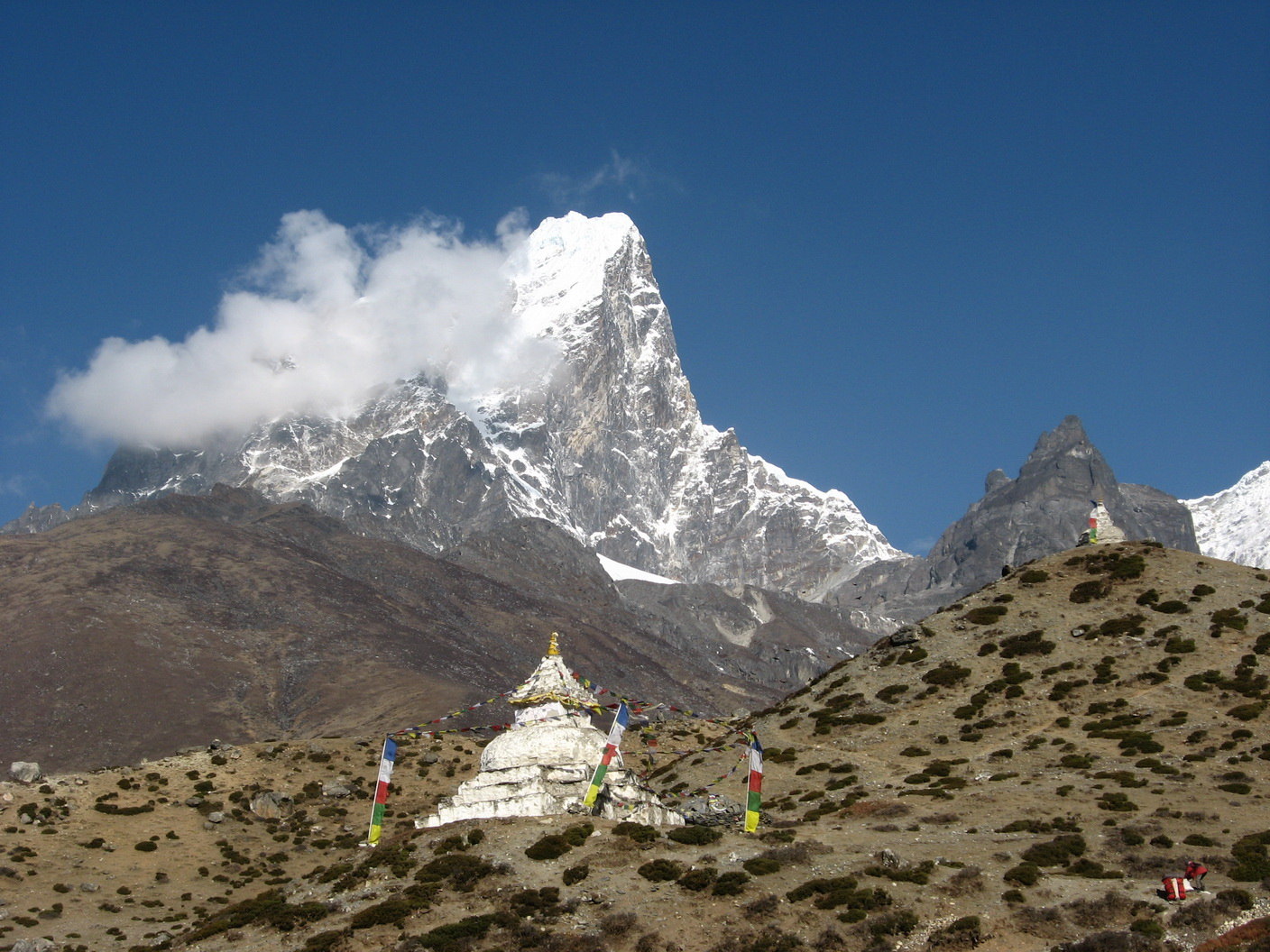 Smal stupa in hill over Dinboche, the mountain in the background is called Taboche.